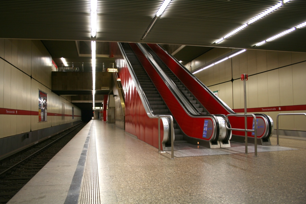 Munich subway station Theresienstraße